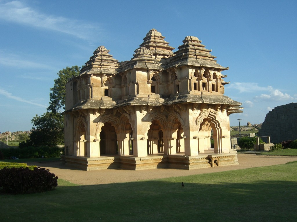 Lotos Mahal at Hampi (Karnataka, India) With its three layers, each made in different achitectural style, each Lotus Mahal is a definite Hampi's attraction